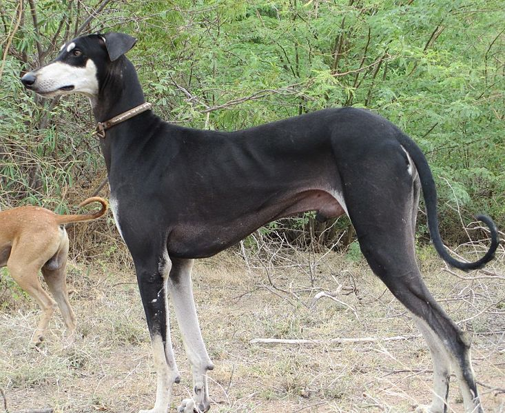 Black throughout the body and have fawn coloured dots on eyebrows, face and legs those are called as Paal Kanni